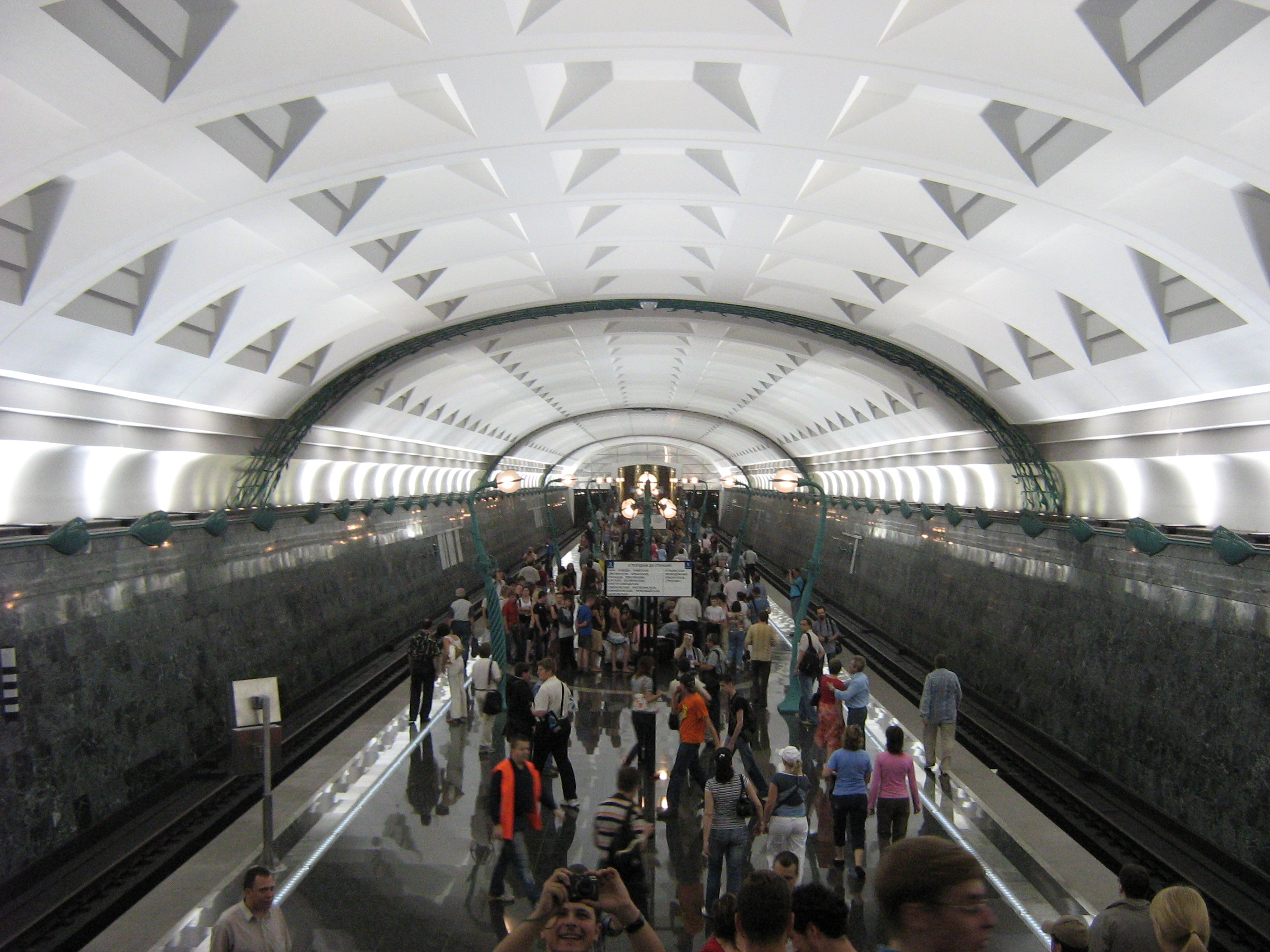 Slavyansky Bulvar - Moscow metro station opened 7.09.2008